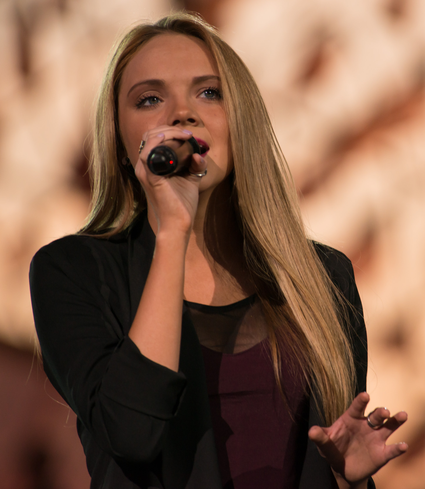 Danielle Bradbery performs during the 25th National Memorial Day Concert on the West Lawn of the U.S. Capitol in Washington, D.C., May 25, 2014.